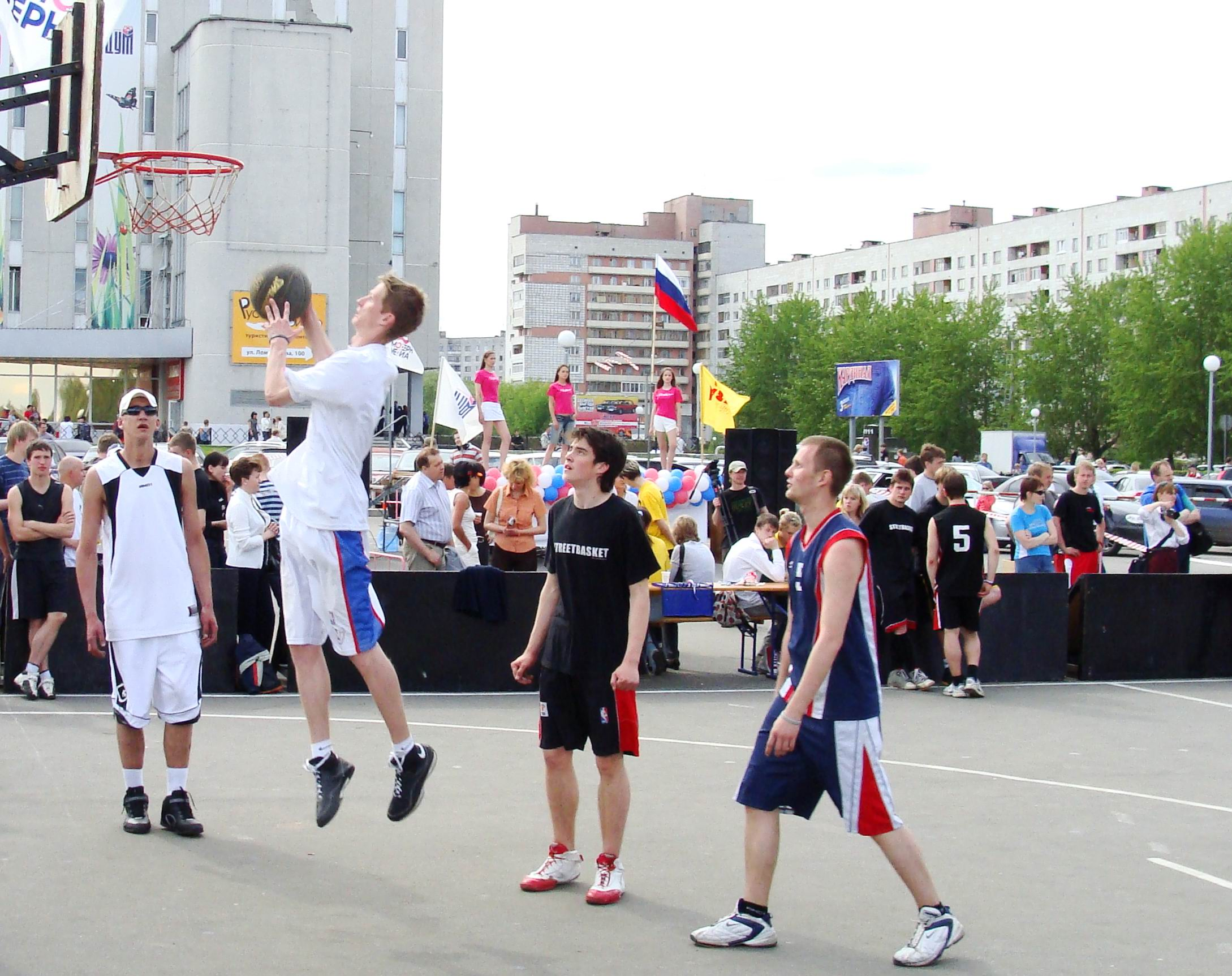 Severodvinsk. Streetball. 12 June 2009